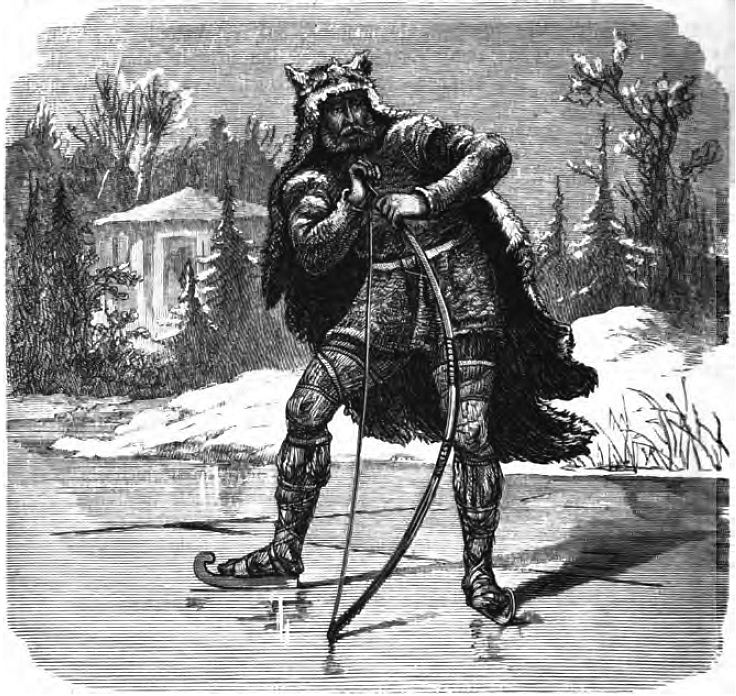 Captioned as "Uller". Leaning on a bow and wearing ice skates, the god Ullr stands atop a frozen lake. In the background stands a building and evergreen trees. The location is presumably the yew dale Ýdalir where Ullr has a dwelling as described in the Poetic Edda poem Grímnismál.